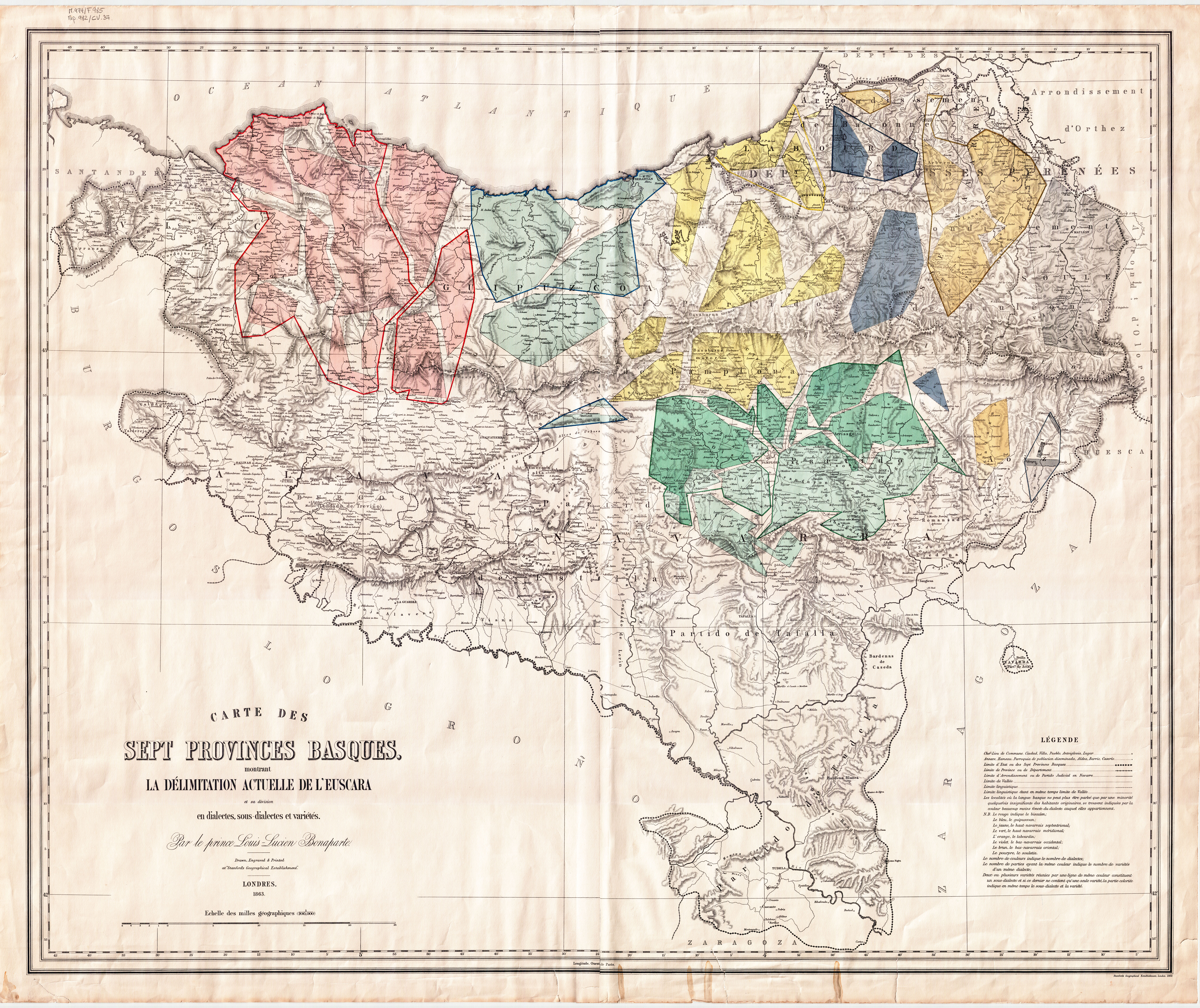 Map showing the different Basque dialects by Louis-Lucien Bonaparte